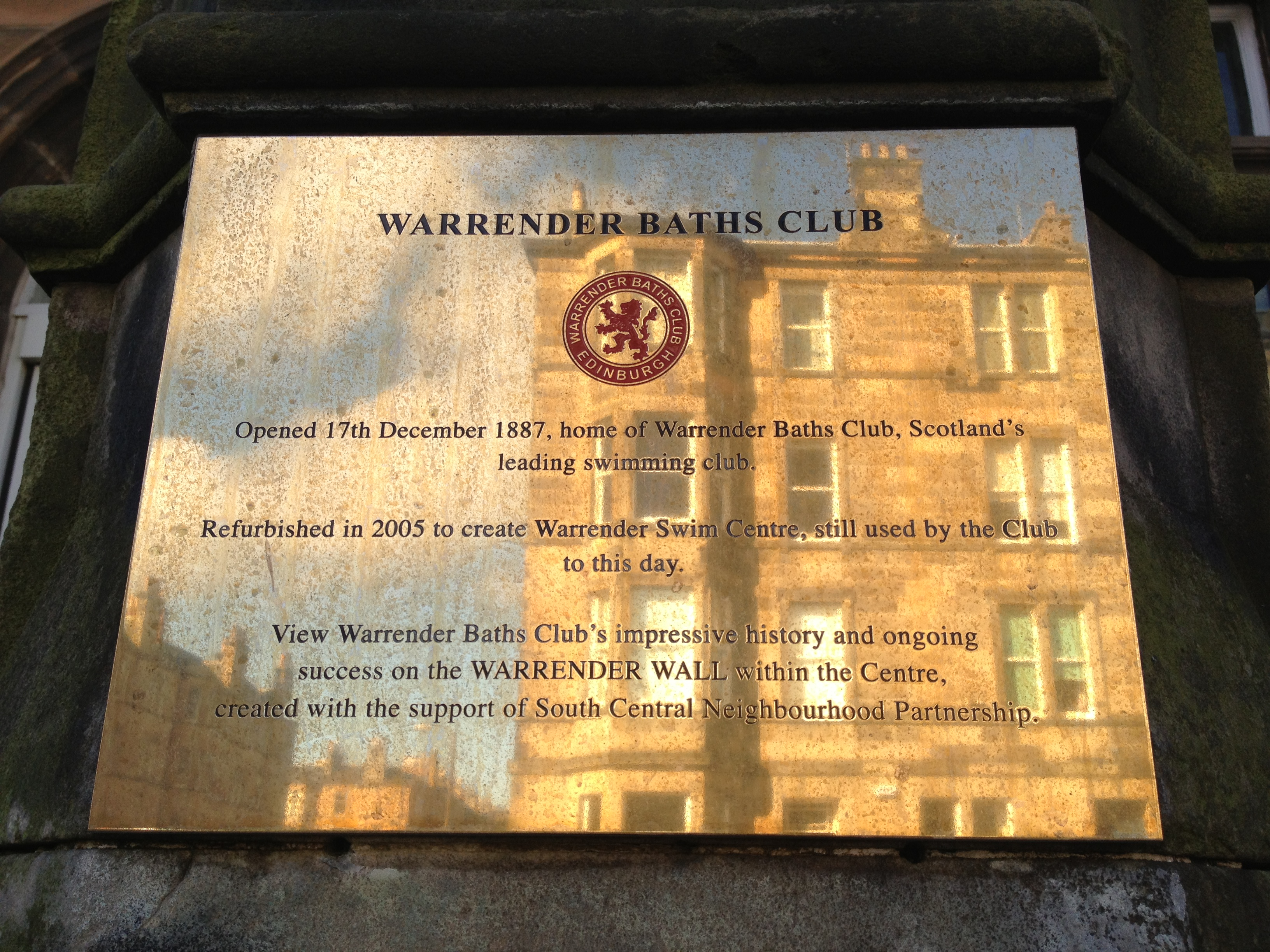 Warrender Baths Club plaque outside Warrender Swim Centre, Edinburgh